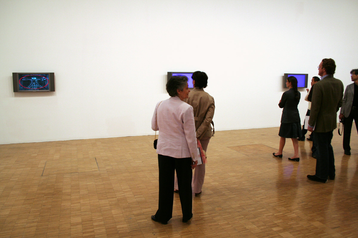 "Manège" exhibition, by Claude Closky, espace 315, Centre Pompidou, Paris (opening Day, "Prix Marcel Duchamp 2006" ceremony)